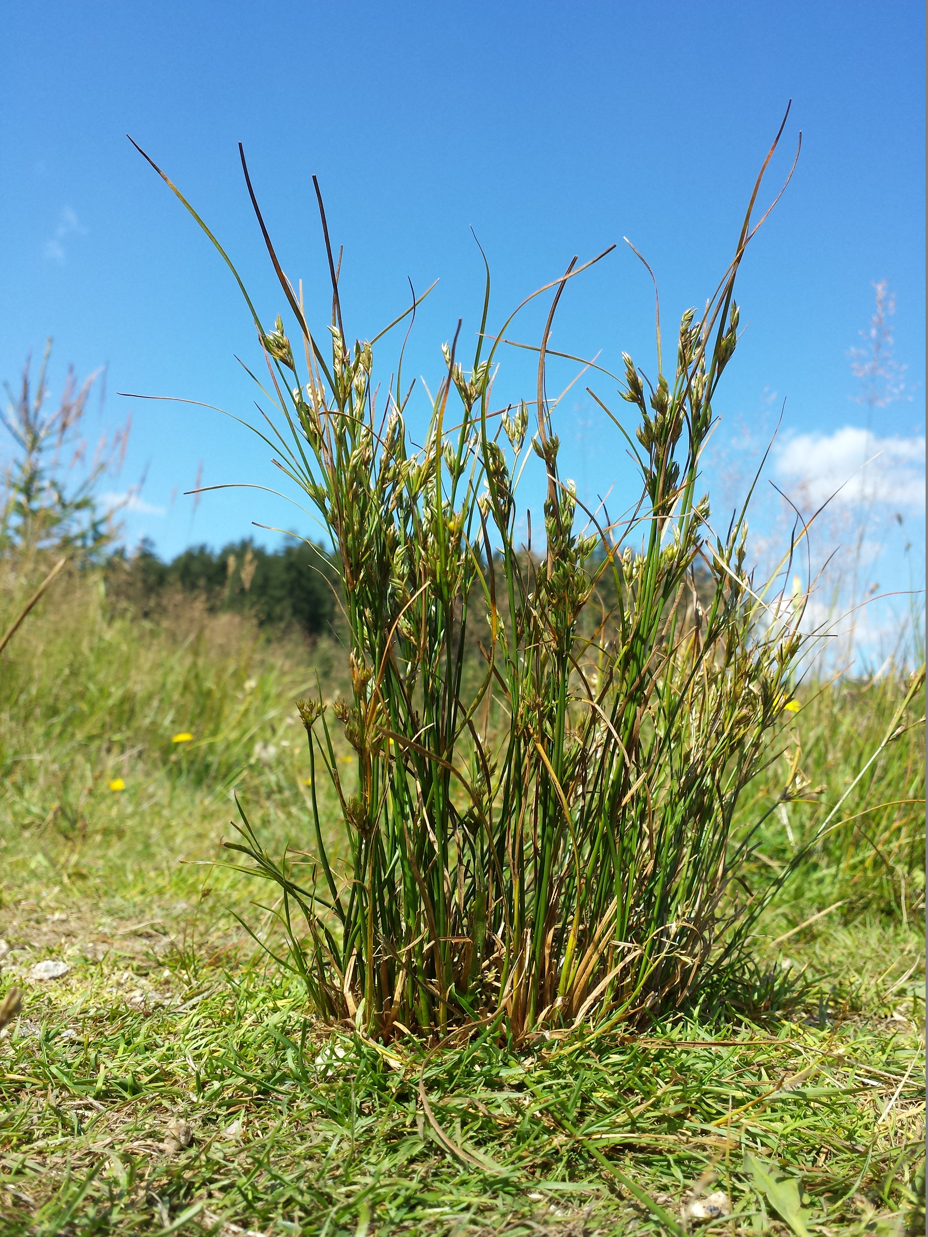 Habitus Taxonym: Juncus tenuis ss Fischer et al. EfÖLS 2008 ISBN 978-3-85474-187-9 Location: Tannermoor near Liebenau, district Freistadt, Upper Austria - ca. 950 m a.s.l. Habitat: way